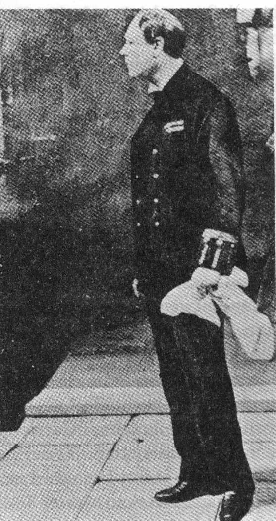 Winston Churchill in Antwerp in October of 1914, organising the defence of the city against the German army in the early stage of World War I.